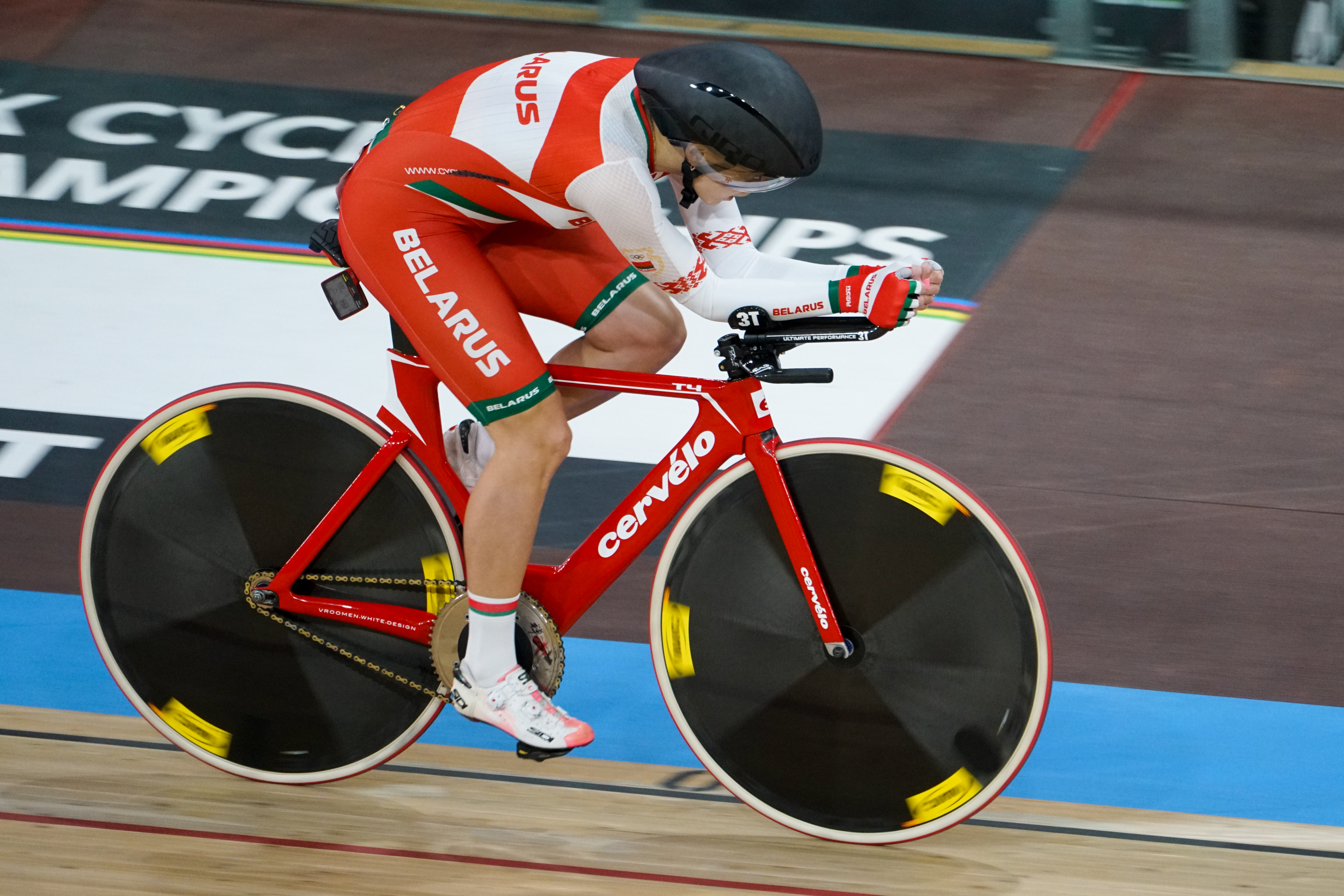 2020 UCI Track Cycling World Championships – Women's Individual Pursuit – Qualifying